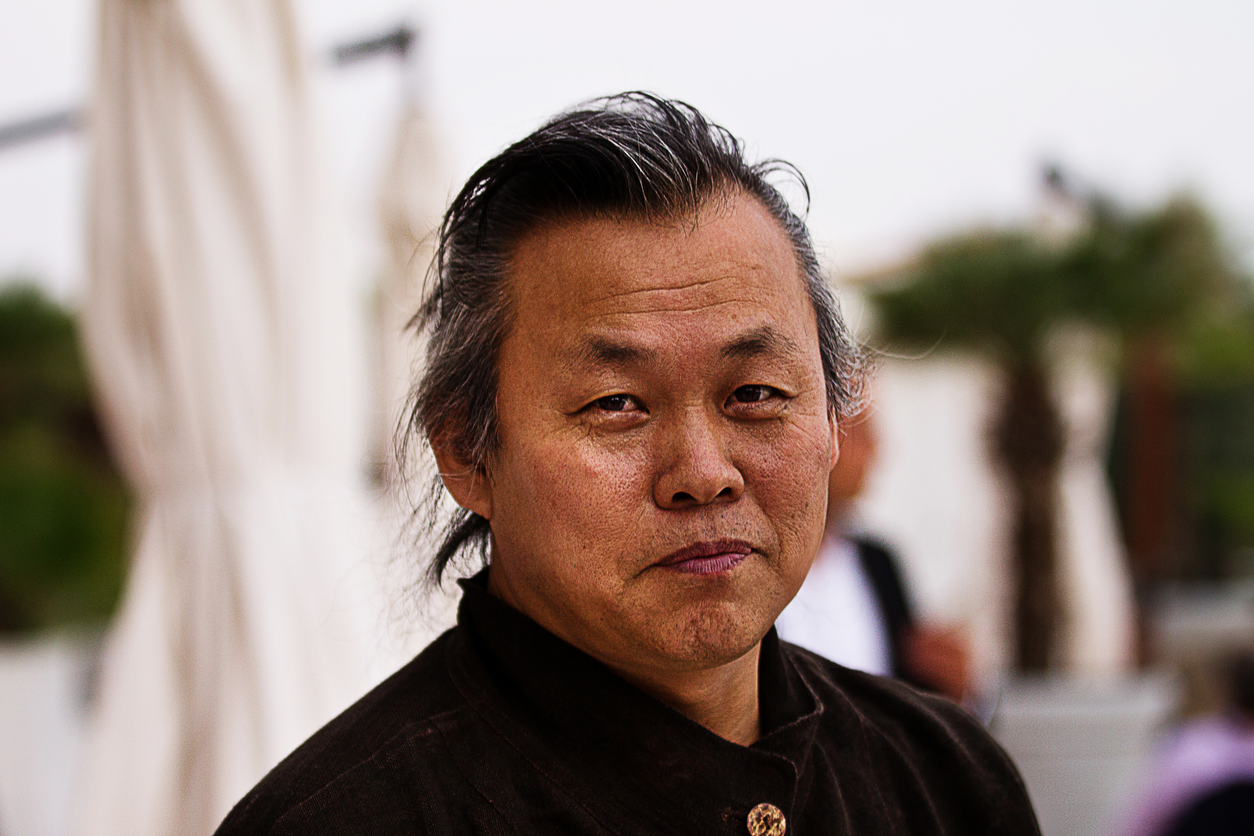 Kim Ki-duk at the 69th Venice International Film Festival